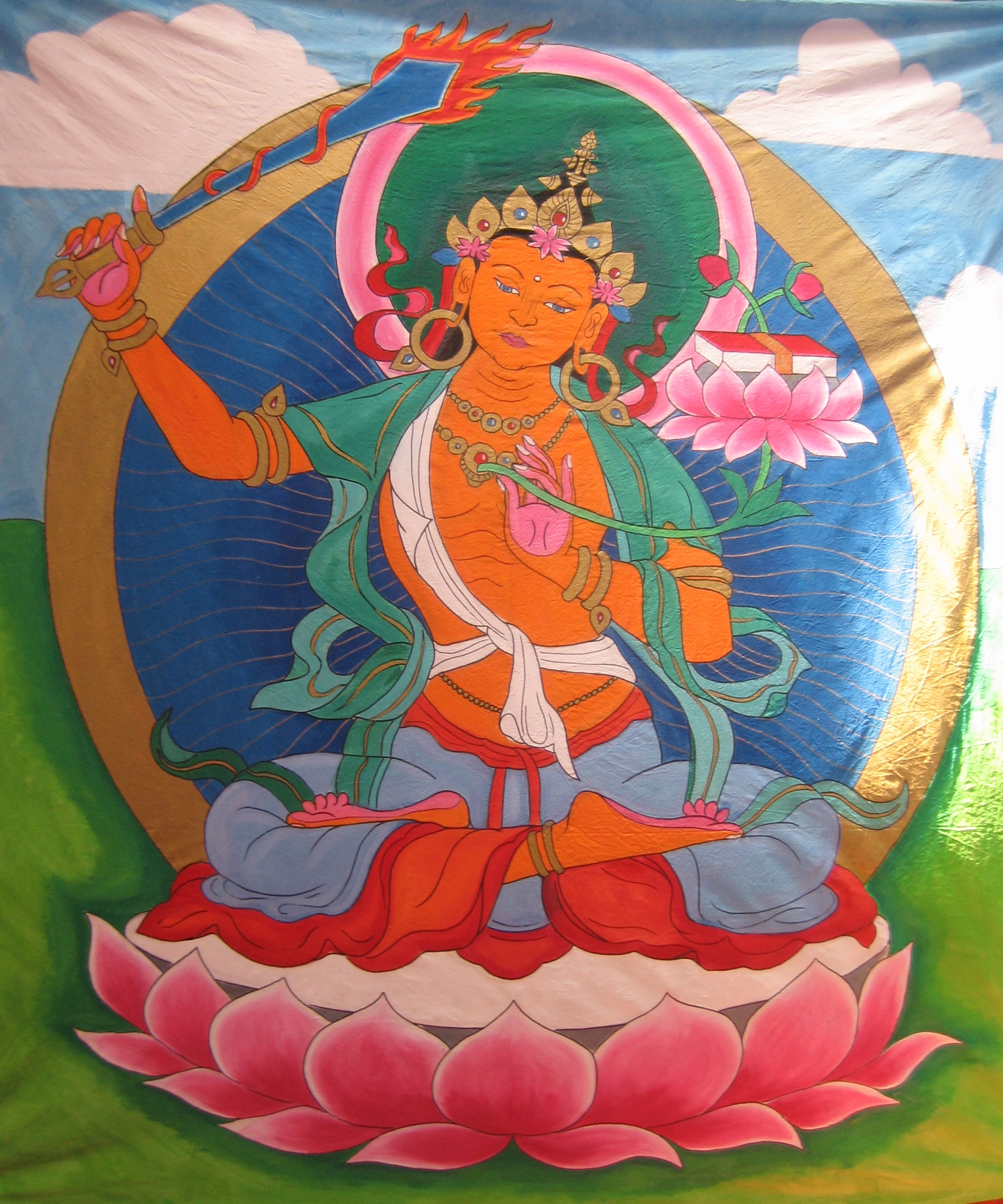 Painted by Cecilia at Buddhafield Festival 2006